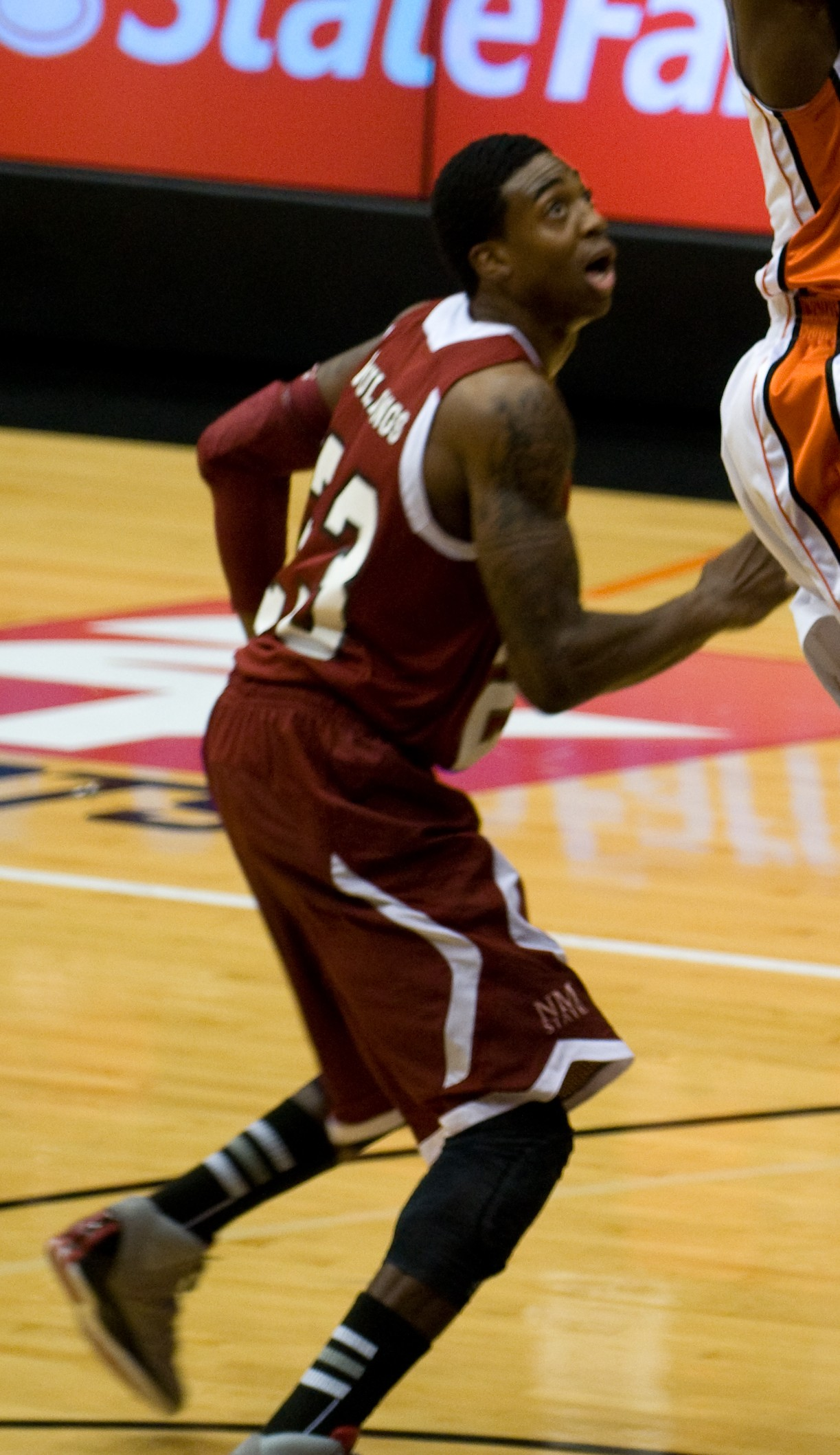 Oregon State Beavers vs. New Mexico State Men's Basketball